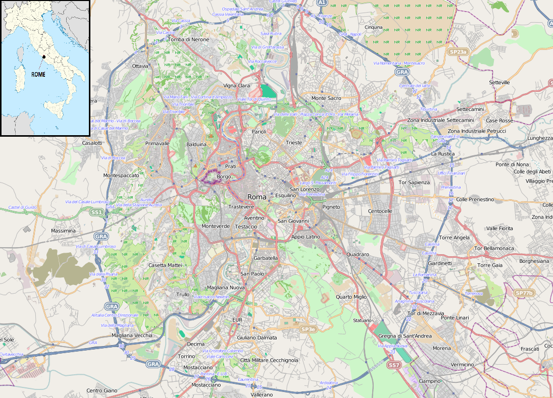 Map of Rome. Italy Geographic limits of the map: N: 41.993° S: 41.792° W: 12.308° E: 12.685°